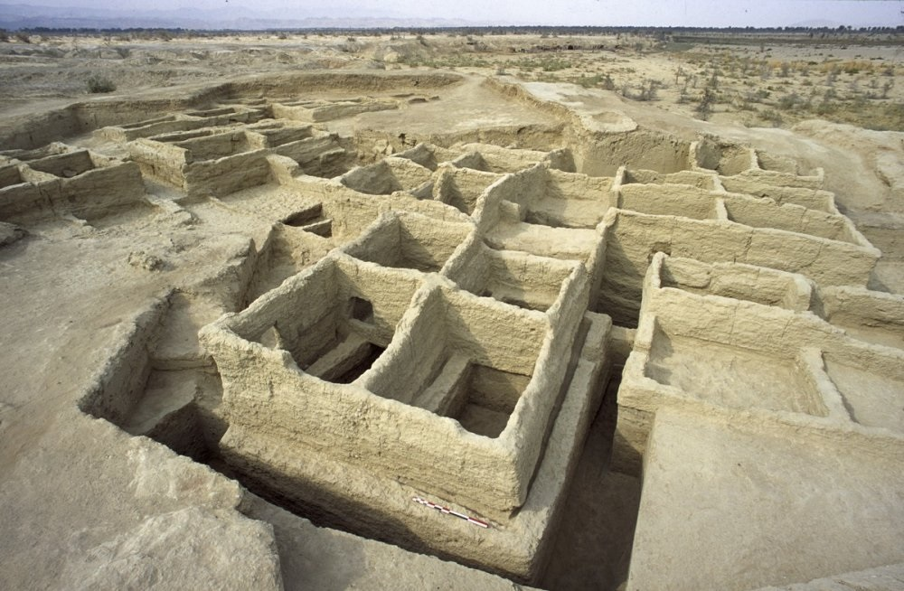 Mehrgarh ruins. Dated to 5500 BC per Dikshit, K.N. (2013) Origin of Early Harappan Cultures in the Sarasvati Valley: Recent Archaeological Evidence and Radiometric Dates, p. 104. Archived from the original on 18 January 2017.